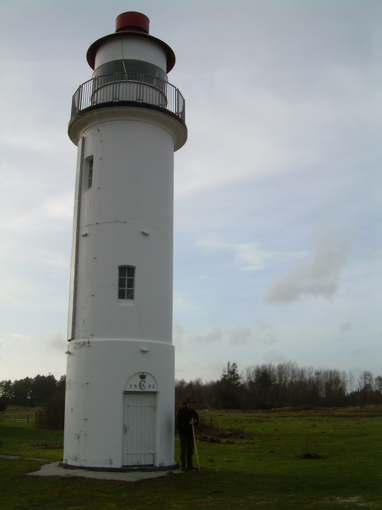 Lighthouse at Enebærodde, in the northern part of Funen, Denmark.